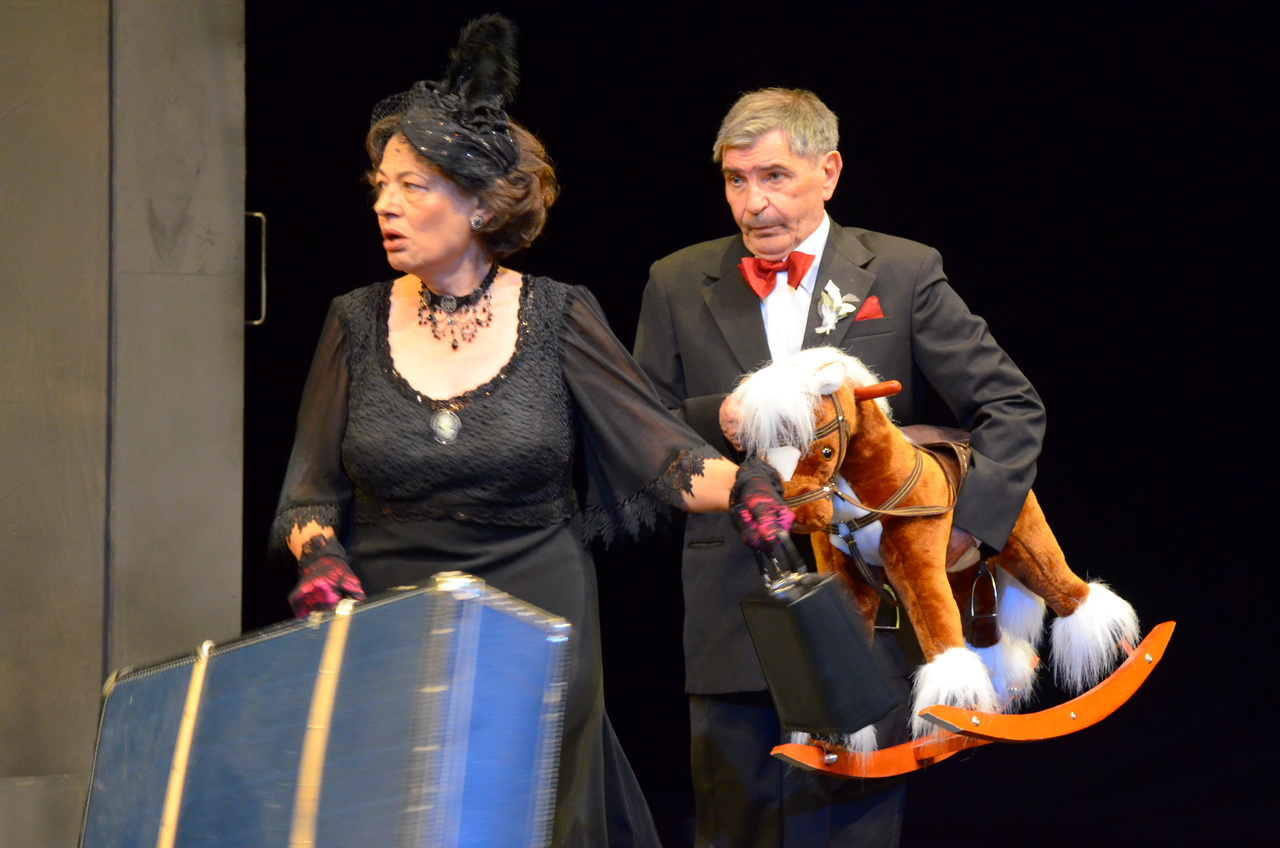 "Burlesque Tragedy" by Dušan Kovačević; directed by Maja Grgić; Drama of the Serbian National Theatre, Novi Sad, 2011/12; Mirjana Gardinovački, Mihailo Janketić Srpski (latinica): "Urnebesna tragedija" Dušana Kovačevića u režiji Maje Grgić, Drama Srpskog narodnog pozorišta, Novi Sad, 2011/12; Mirjana Gardinovački, Mihailo Janketić Српски (ћирилица): "Урнебесна трагедија" Душана Ковачевића у режији Маје Гргић, Драма Српског народног позоришта, Нови Сад, 2011/12; Мирјана Гардиновачки, Михаило Јанкетић